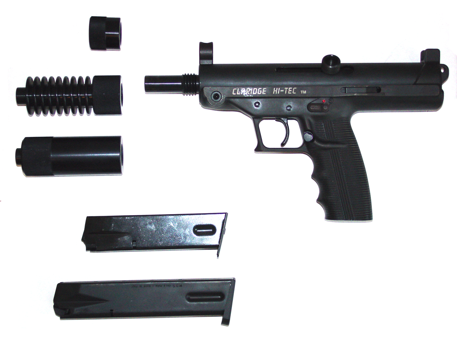 Claridge S9 with available attachments. This photograph has been modified: the serial number has been Photoshopped out.